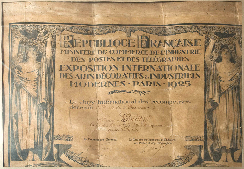 Honorary diploma of Ivan Golikov (1887-1937), awarded at the International Exhibition of Modern Decorative and Industrial Arts Paris. 1925. The diploma is located in the State Museum of Palekh Art in Palekh, Russia.